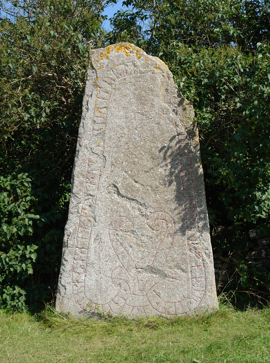 The runestone in Seby, Segerstad Parish, Mörbylånga Municipality, Öland, Sweden.